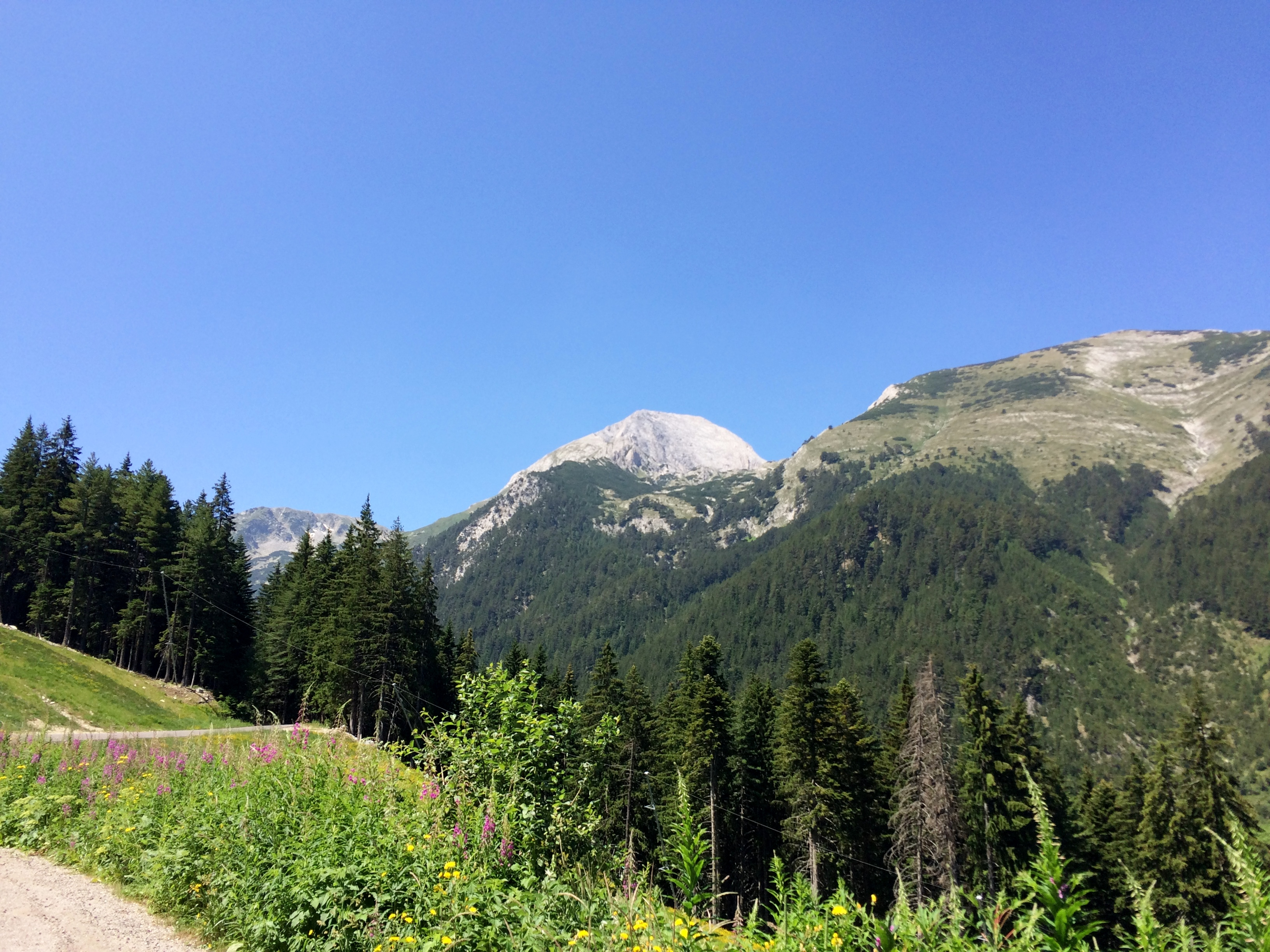 Peak Vihren, Pirin mountains